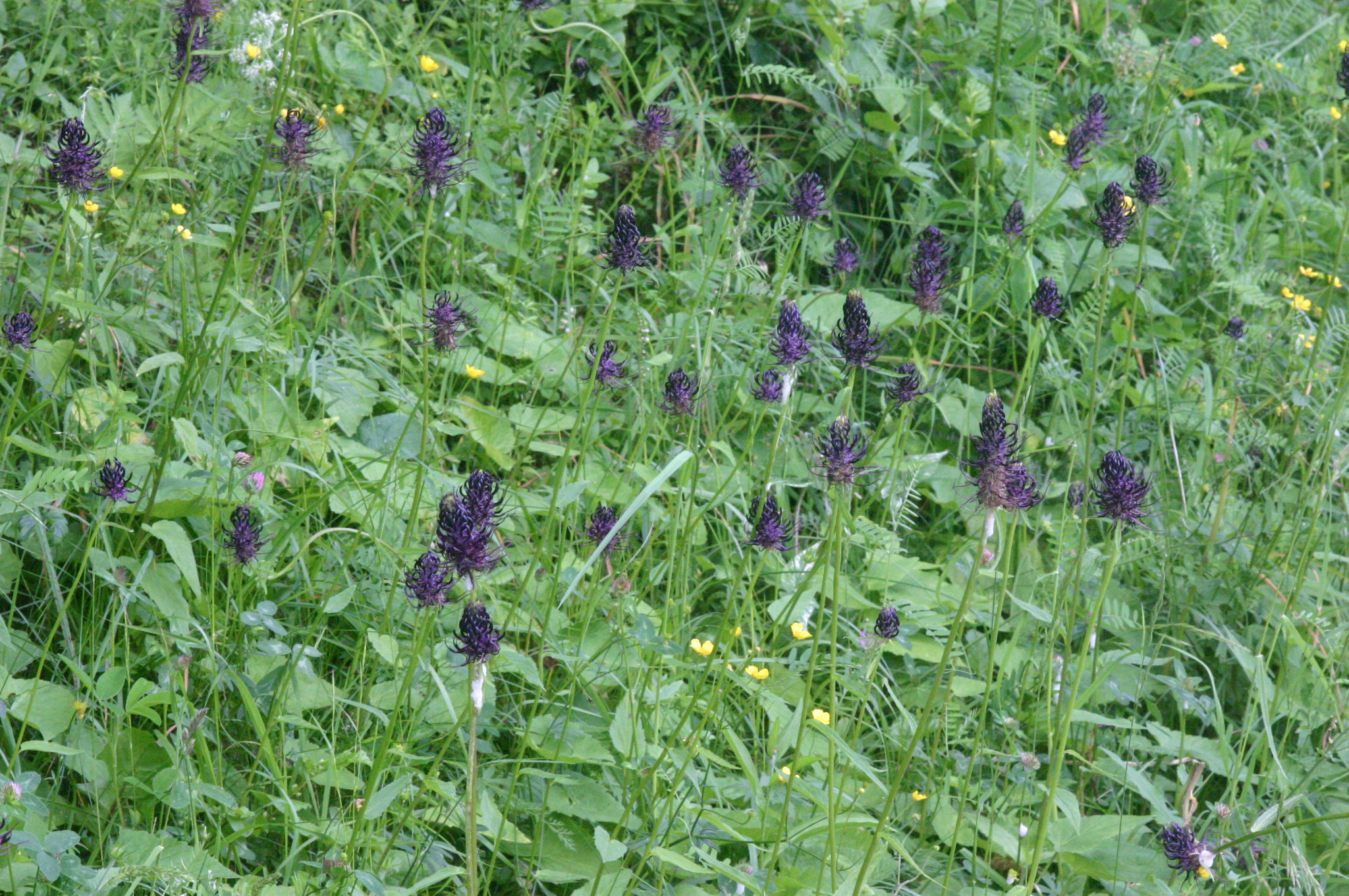 Phyteuma ovatum